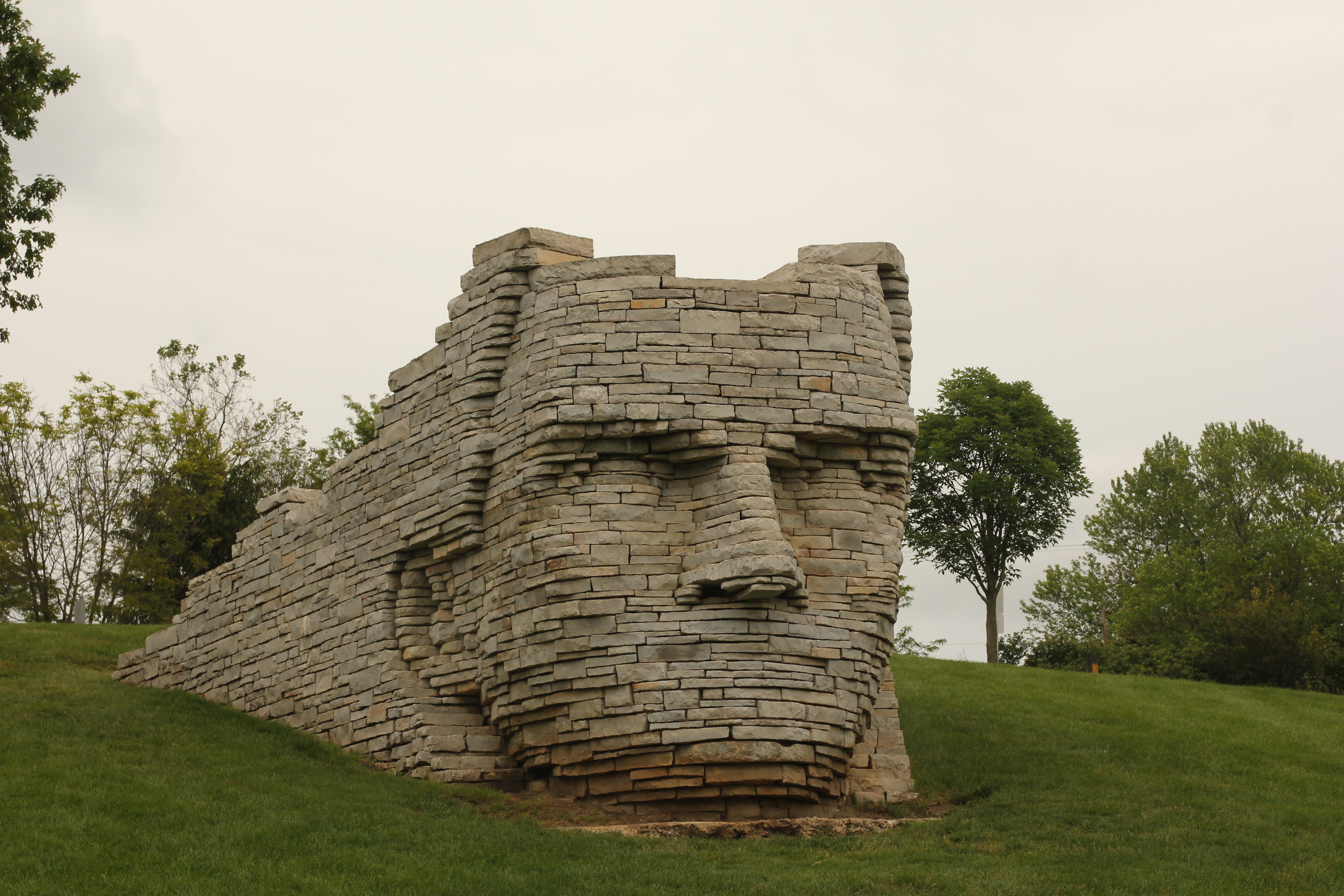 A monument to Leatherlips and a memorial art sculpture are tourist stops in Dublin, Ohio.